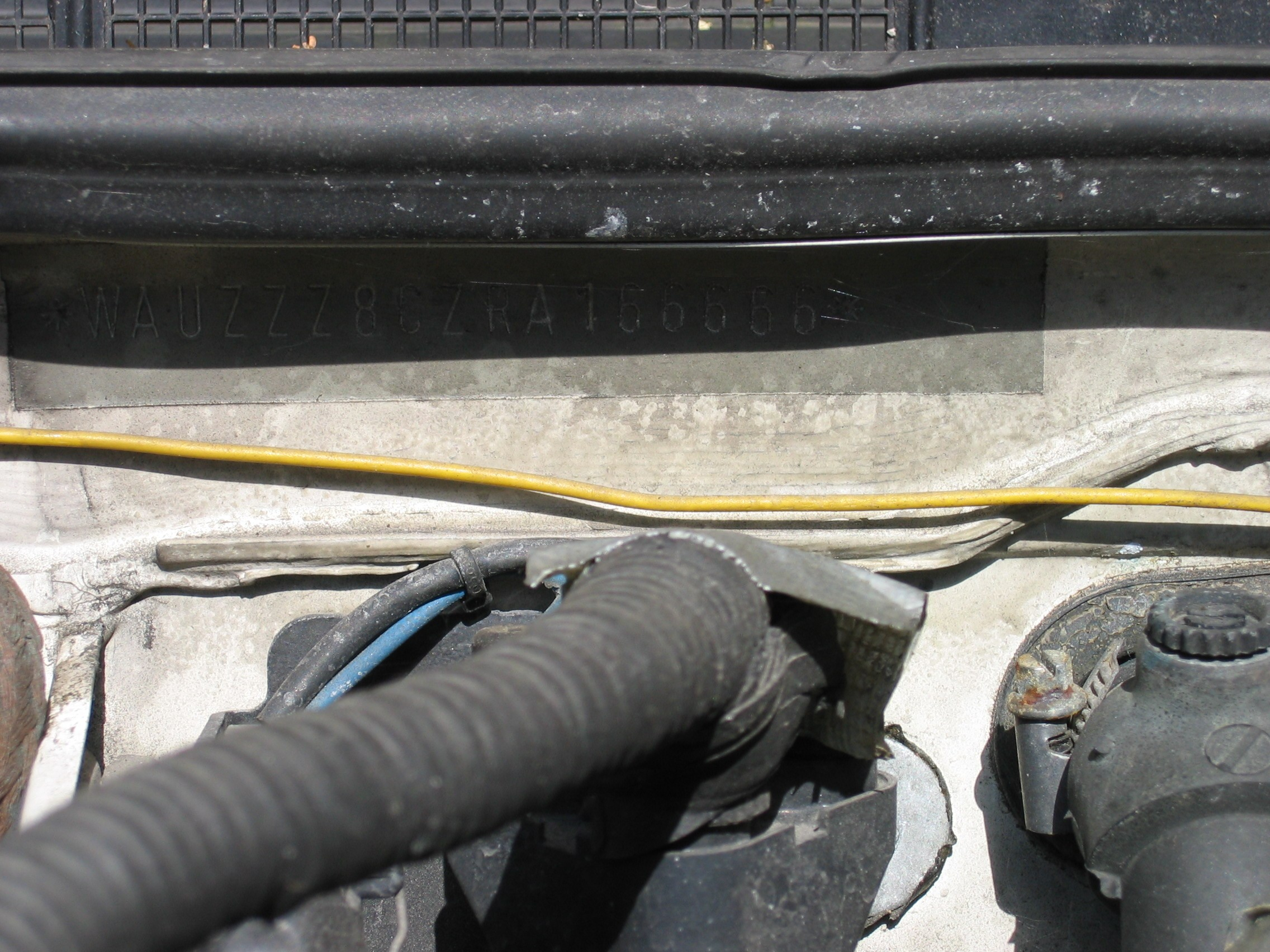 VIN - Vehicle Identification Number in the firewall of an Audi 80 (Europe) 90 (US) B4 Series (modified code to prevent fraud - test calculation of checksum will fail!)